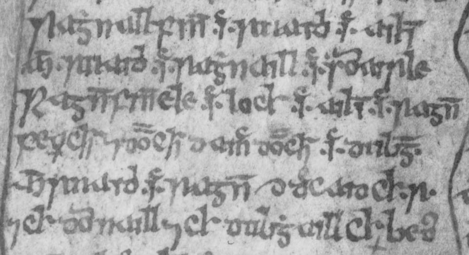 An excerpt from folio 1v of National Library of Scotland Advocates' MS 72.1.1 showing pedigrees of Clann Ruaidhrí. The photograph is black and white and taken under under ultra-violet light.